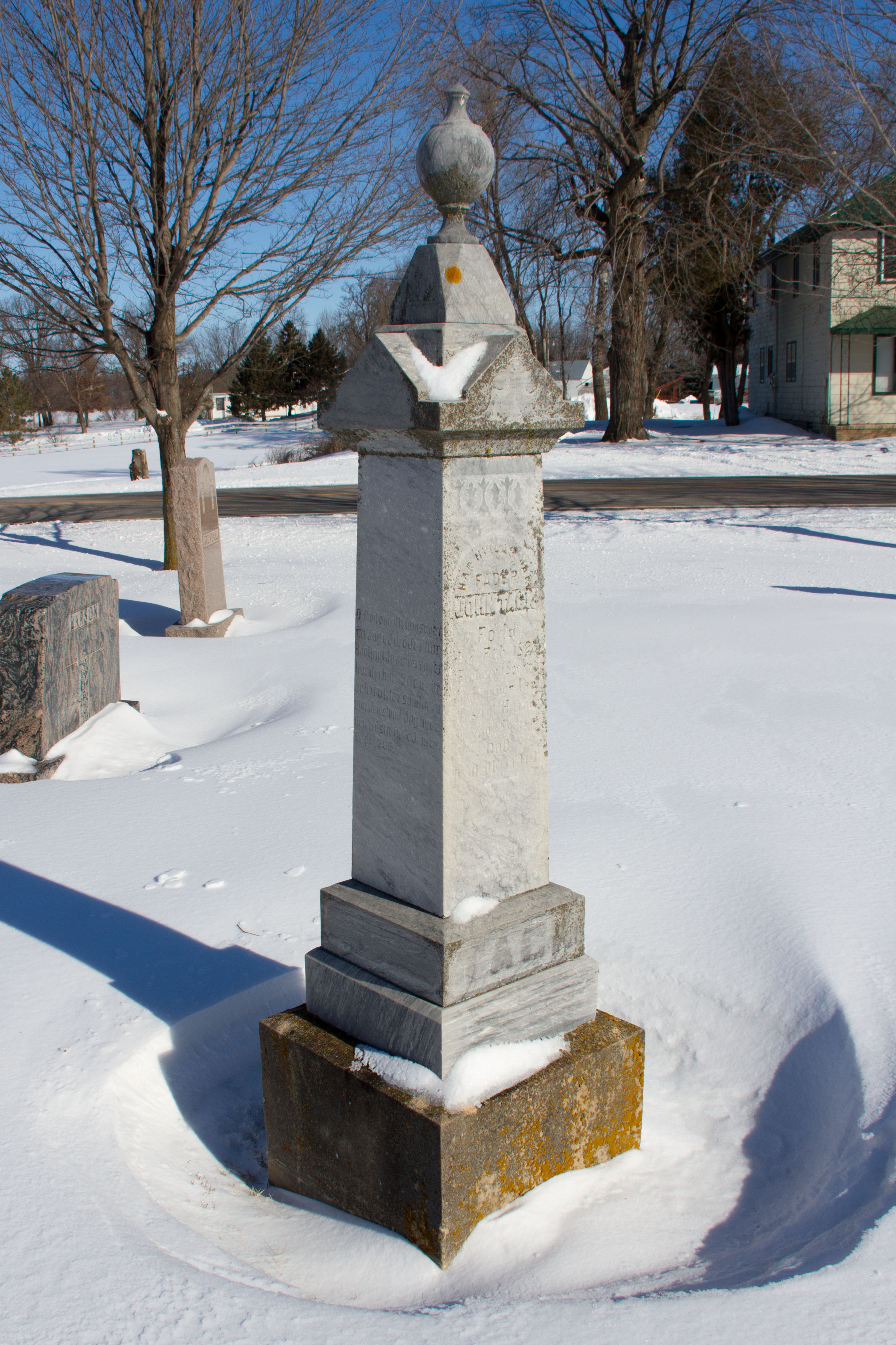 Gravestone of Swedish American immigrant John Tack (1825 - 1910), entirely in the Swedish language, Stockholm Township, Wright County, Minnesota, USA. Right Panel: (Swedish) HAR HVILAR VÅR FADER JOHN TACK Född d.12 Feb. 1825 Fröderyd Socken Jönköpings län Västra Härad Småland Sverige Död D. 10 Okt. 1910 (English translation) Here lies our FATHER JOHN TACK Born d.12 February in 1825 Fröderyd Parish Jönköping County Western Hundred Småland, Sweden death D. October 10 in 1910 Left Panel: A Swedish Hymn, viewable here in the Den svenska Psalm boken af Konungen gillad och Stadfåstad år 1819.